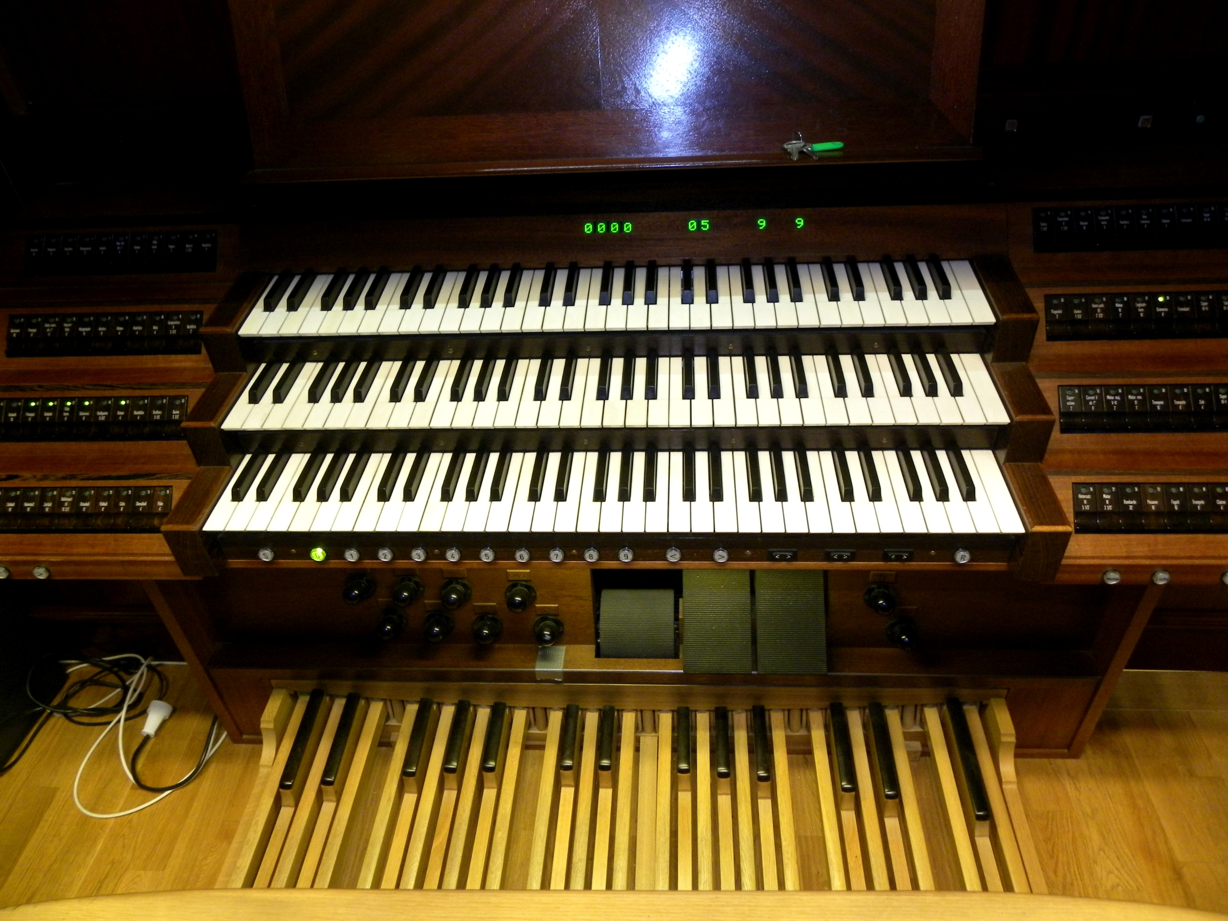 Organ manuals